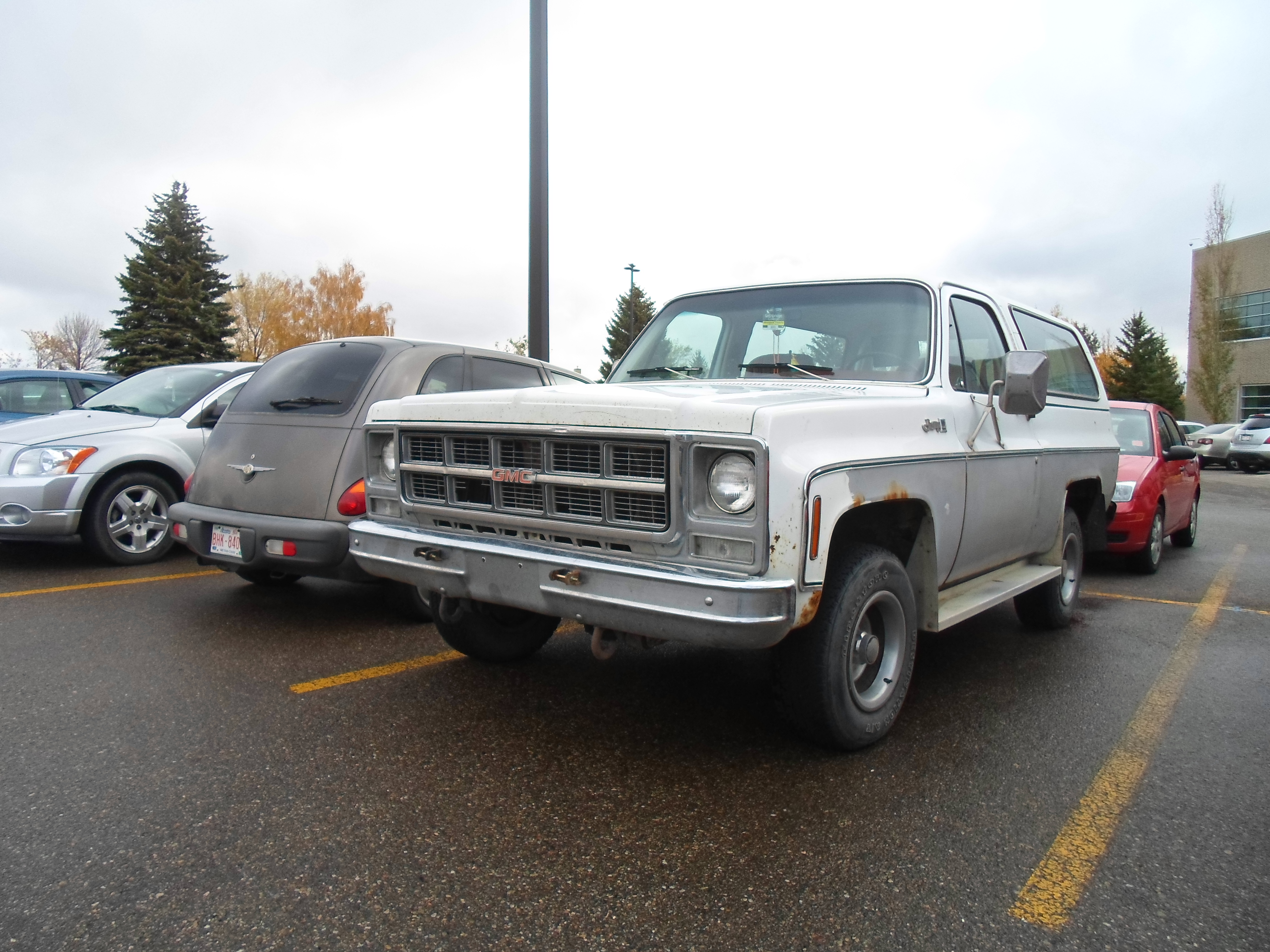 Late 1970s GMC Jimmy. I've always thought the two tone on these was quite sharp looking.